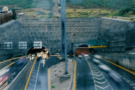 View of both tunnels from their southern entrances (San Pedro Garza Garcia).